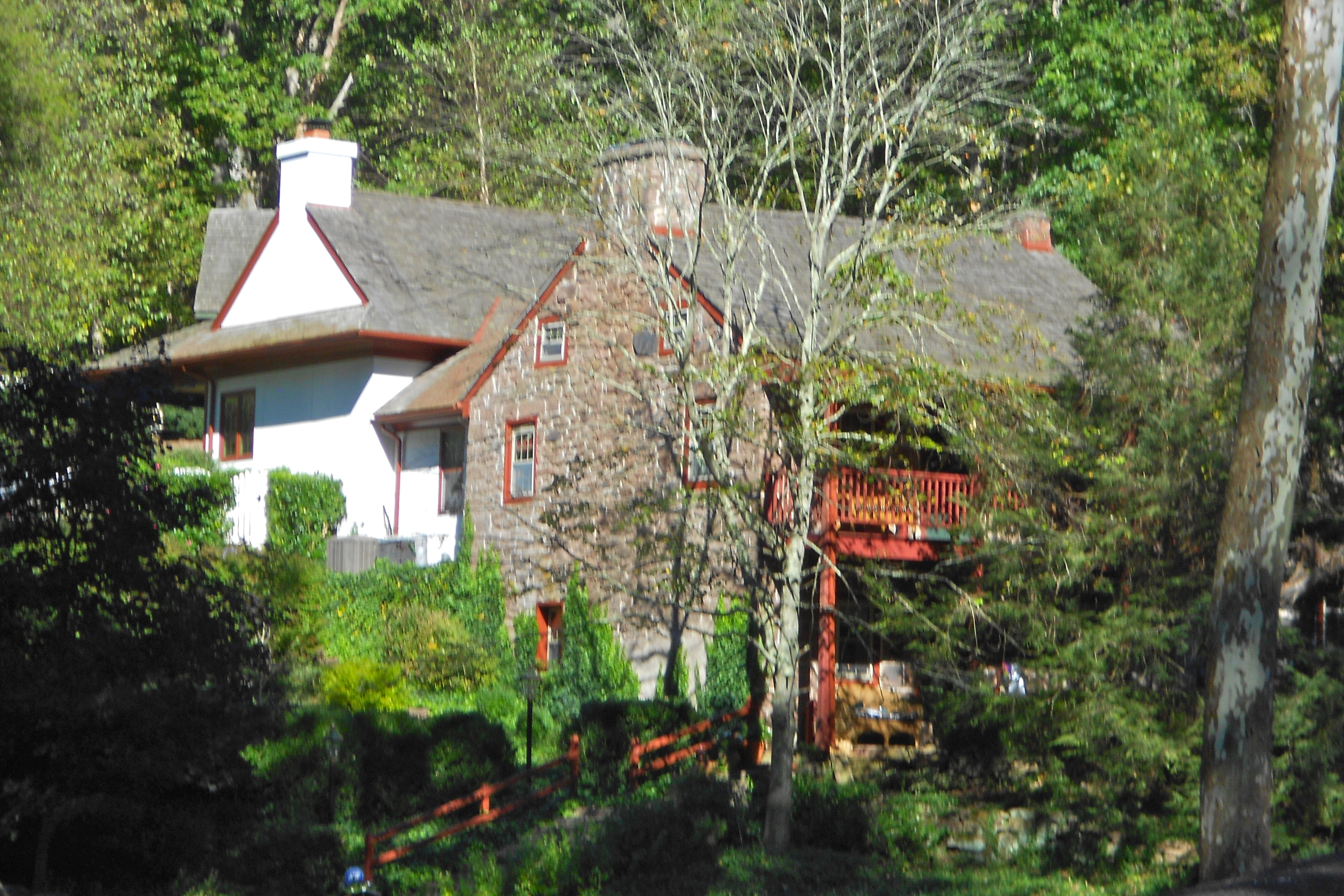 Kise Mill Bridge Historic District Listed on the NRHP on October 15, 1980. At the junction of Kise Mill and Roxberry Roads, east of Lewisberry in Newberry Township, York county, Pennsylvania. This looks down on the Kise Mill Bridge, perhaps 30 yards away. The bridge is listed separately on the NRHP and is also part of the historic district.